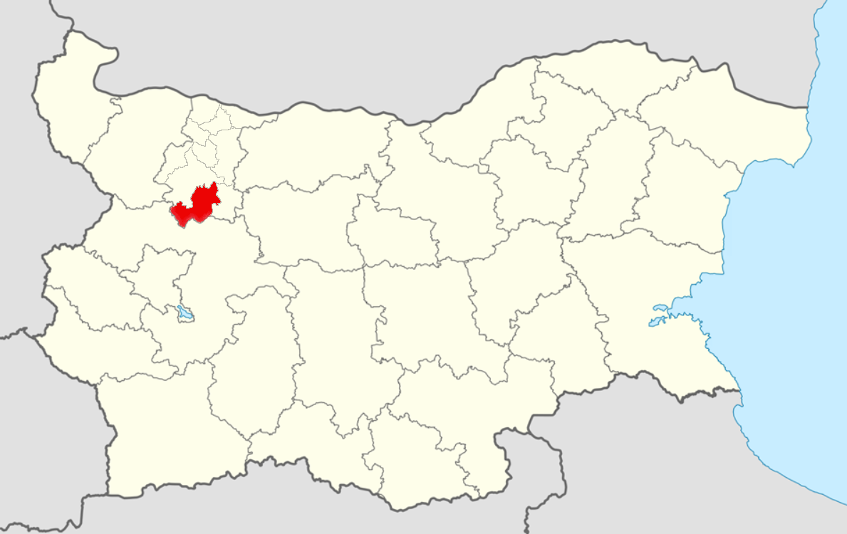 Location map of Mezdra Municipality within Bulgaria and Vratsa Province.